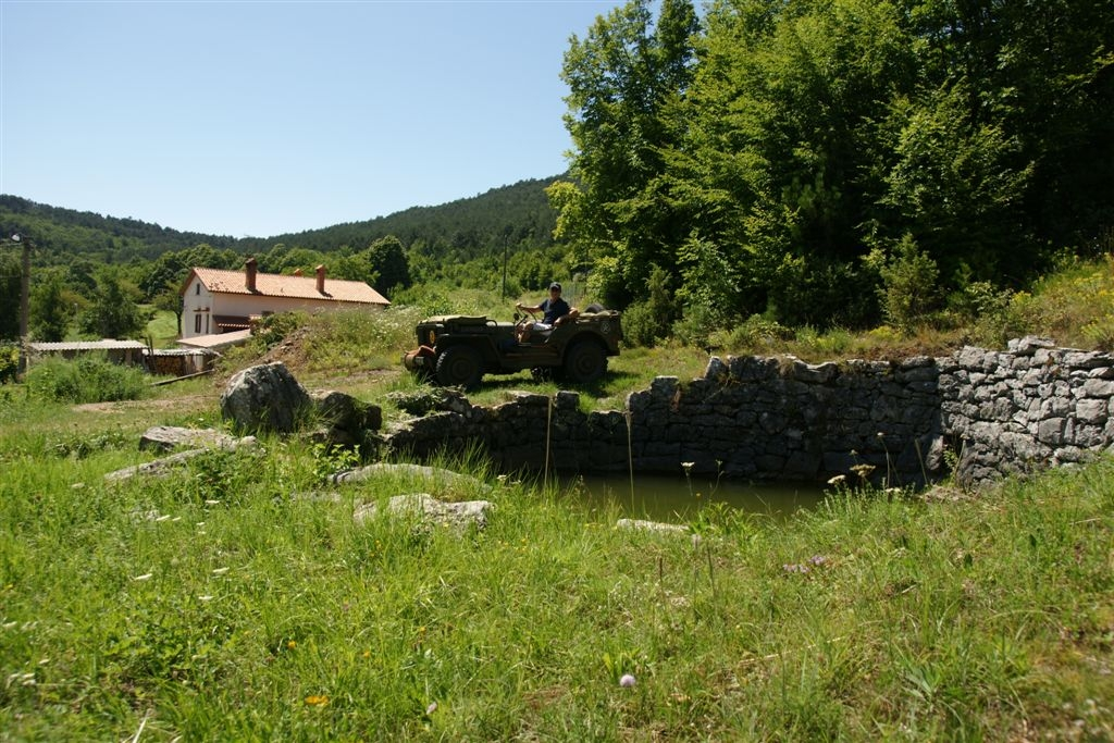 Willys Adventures Merce Lake